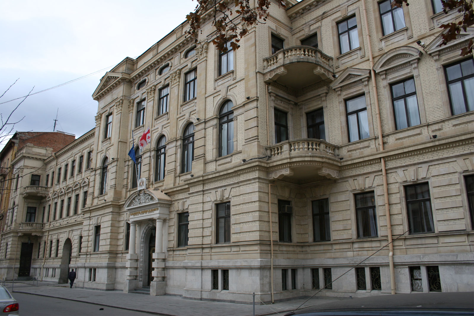 The Supreme Court of Georgia in 32 Brothers Zubalashvili St., Tbilisi. Architect - Alexander Shimkevich, 1894